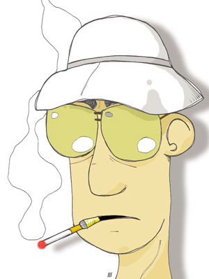 Cartoon of the journalist and writer Hunter S. Thompson, based on his classic look.